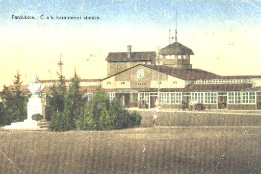 War hospital Pardubice 2